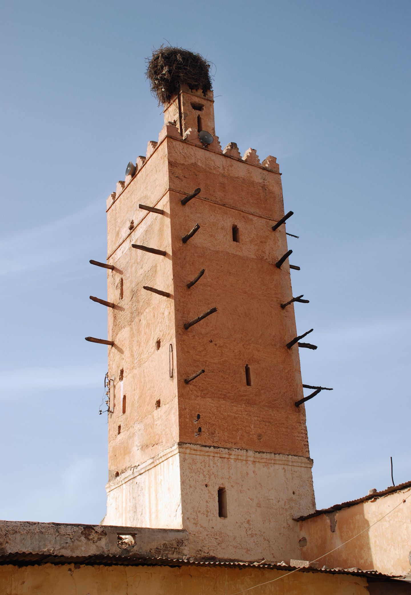 Kasba Tadla, Morocco, minarett in Kasba